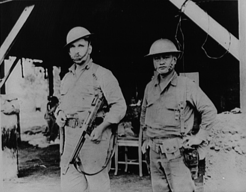 Brothers in arms. Typical of the 10,000 Americans who helped to stall Japan's forces on Bataan was Captain Arthur W. Wermuth (left) shown here with his Filipino aide. During the four months of fighting in Bataan, Captain Wermuth and his aide accounted for over a hundred of the enemy.